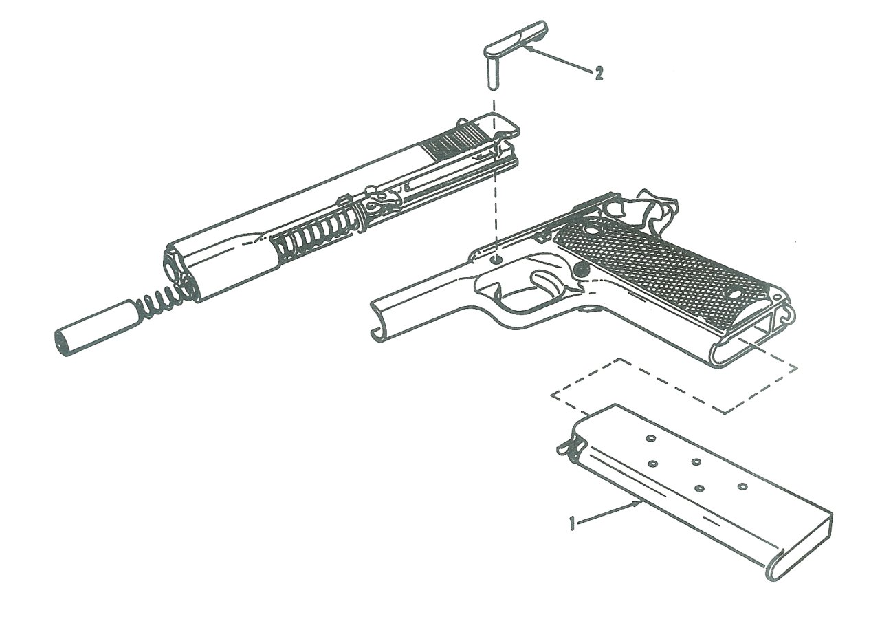 Exploded view of "Pistol Caliber .45, Automatic: M1911A1"